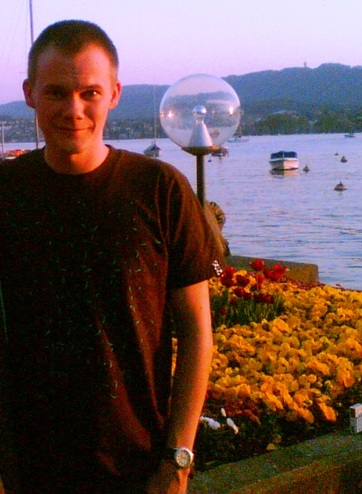 Just Jack concert in Zurich 2007